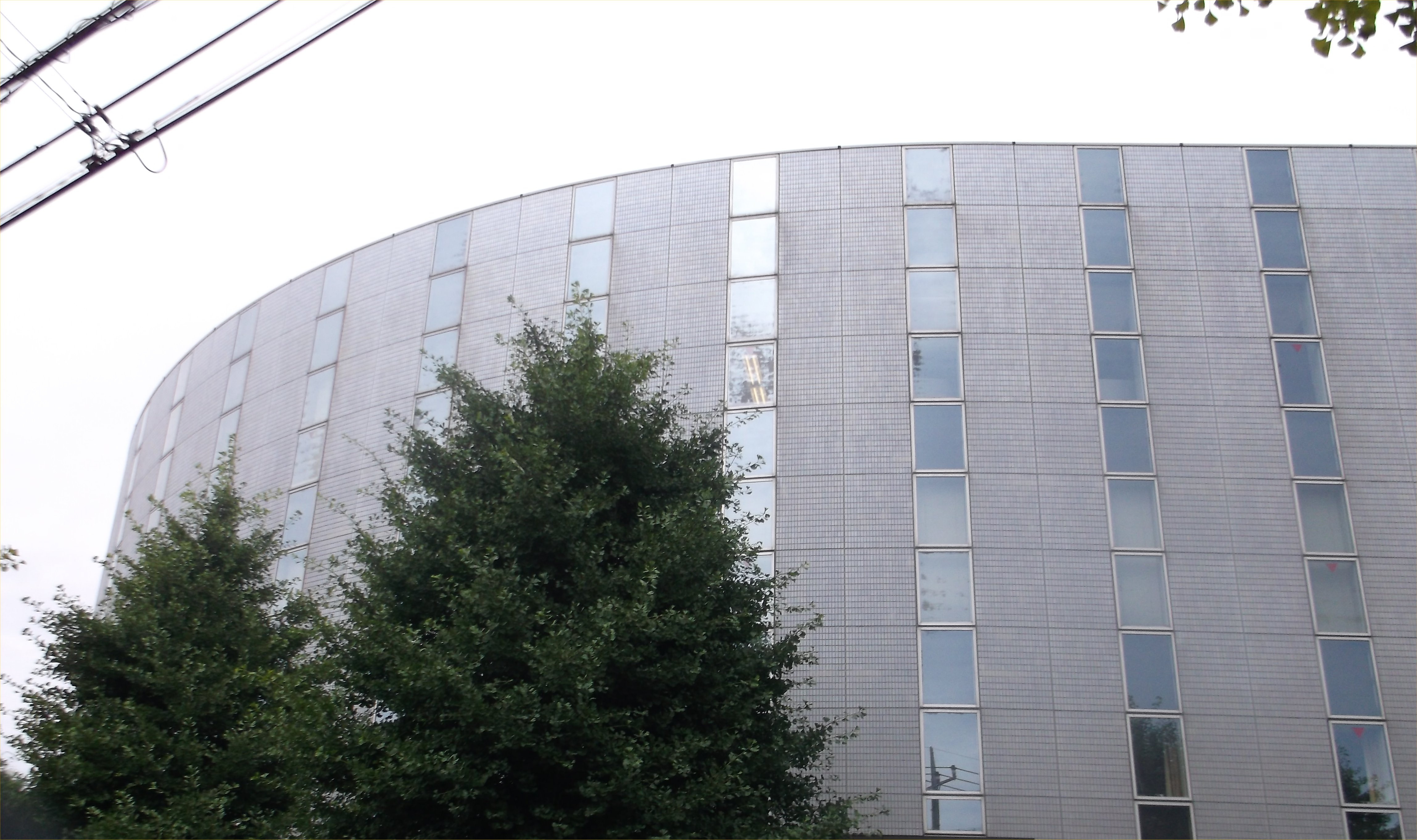 A photo of NTV(Nihon TV,Nippon Television Network Corporation)Ikuta Studio Sugesengoku,Tama-ku,Kawasaki city,Kanagawa pref.,Japan.